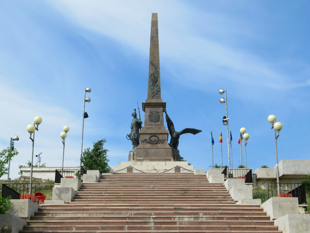 The Independence Monument (1904) on Citadel Hill at Tulcea, Romania, commemorates the 1878 union of Northern Dobruja with Romania following the Russo-Turkish War. It offers fine views of the Danube River.